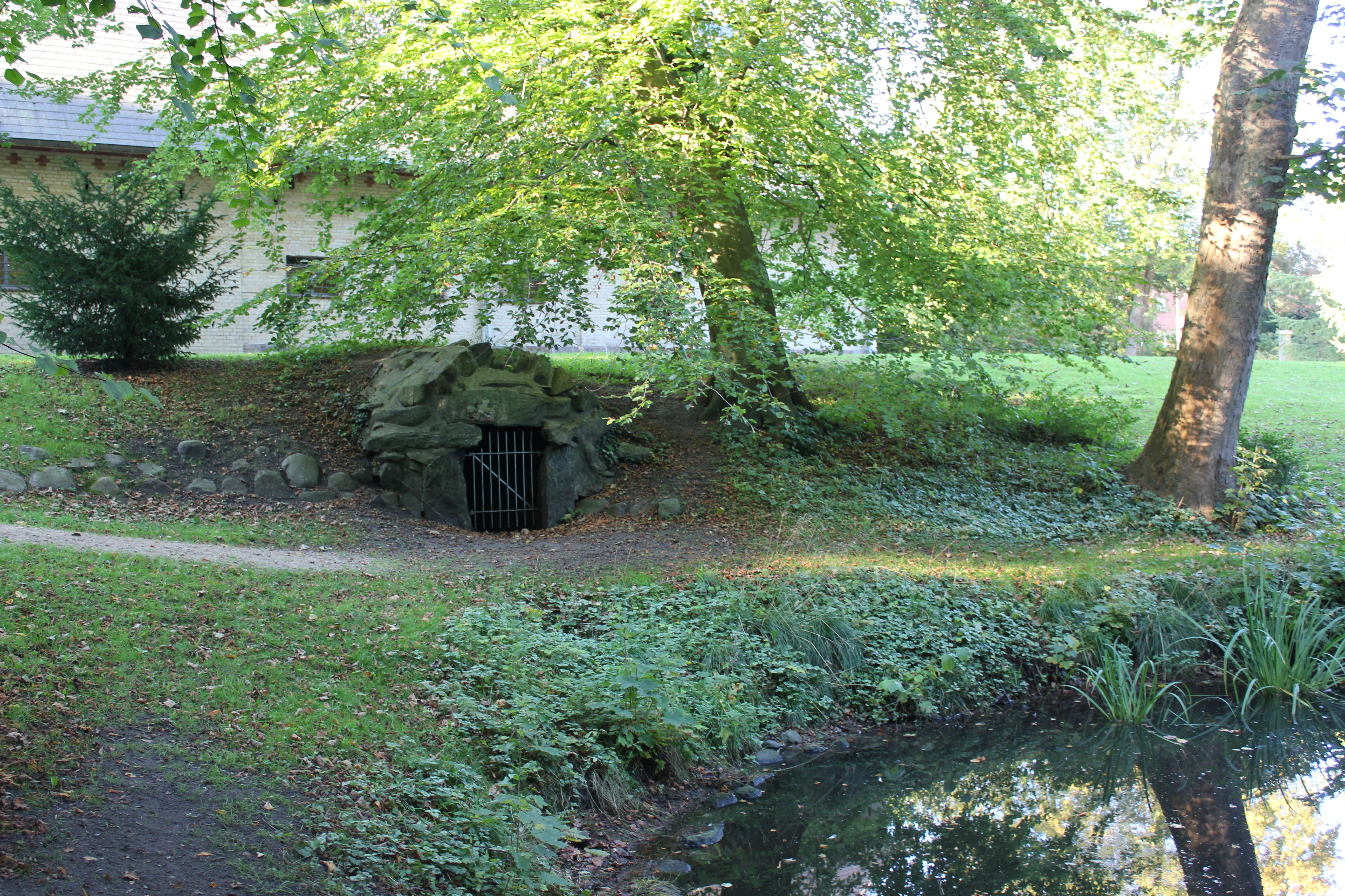 Mummy Grotto in the Christiansen Park on a little pond